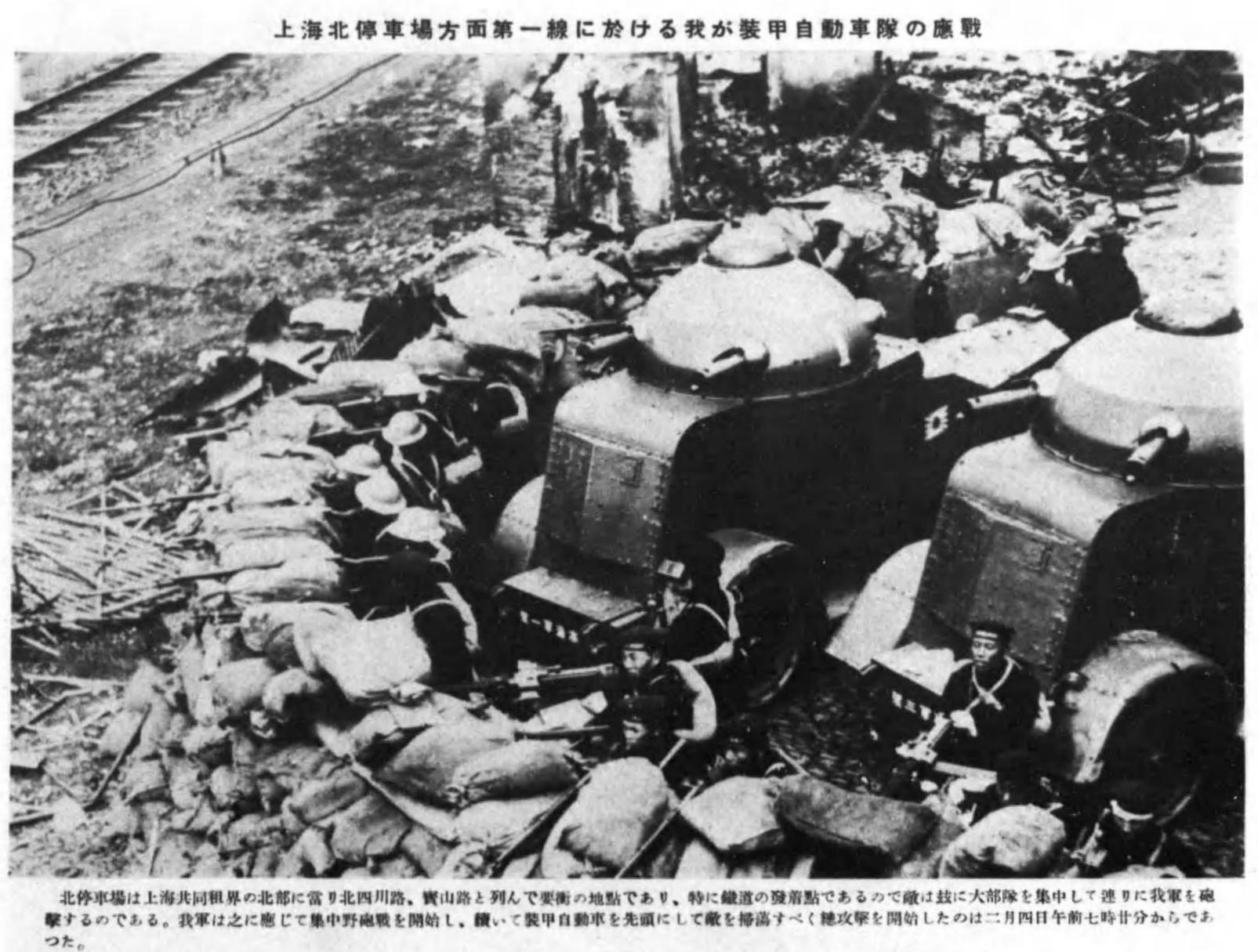 Japanese armored car unit fighting back at the front line near Shanghai North Railway Station